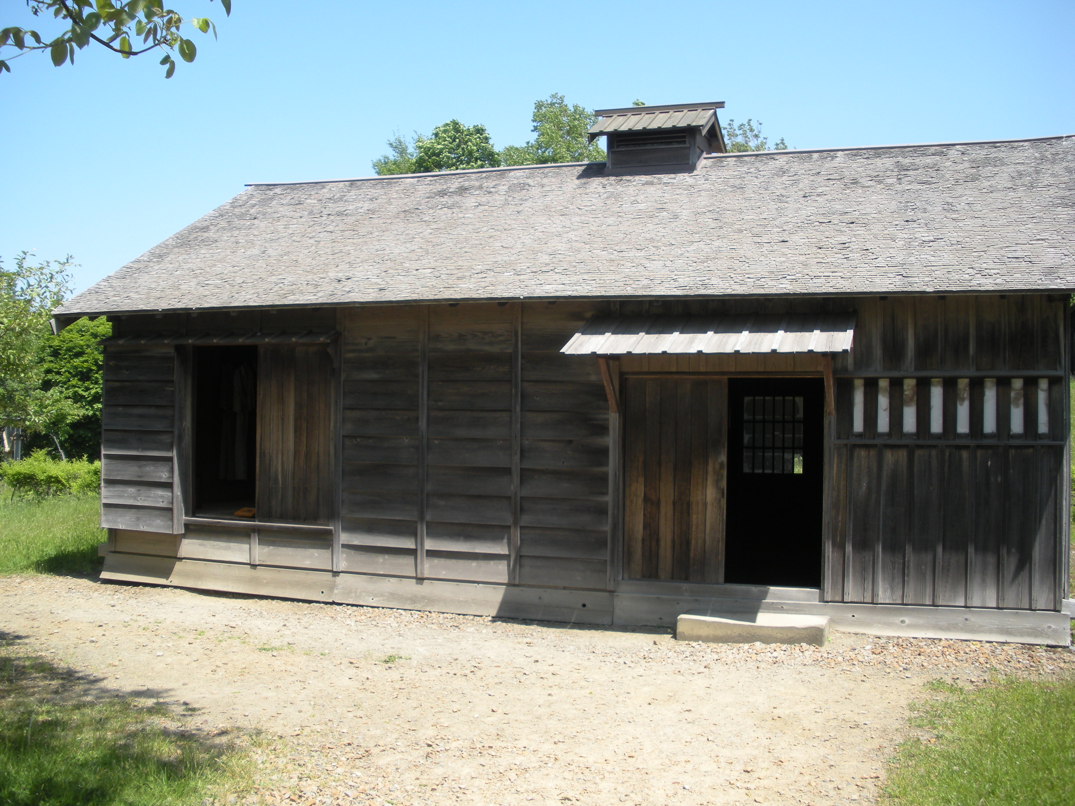 Hokkaido colonizers House Historical Village of Hokkaid. Atsubetsuch-konopporo, Atsubetsu-ku, Sapporo, Japan.